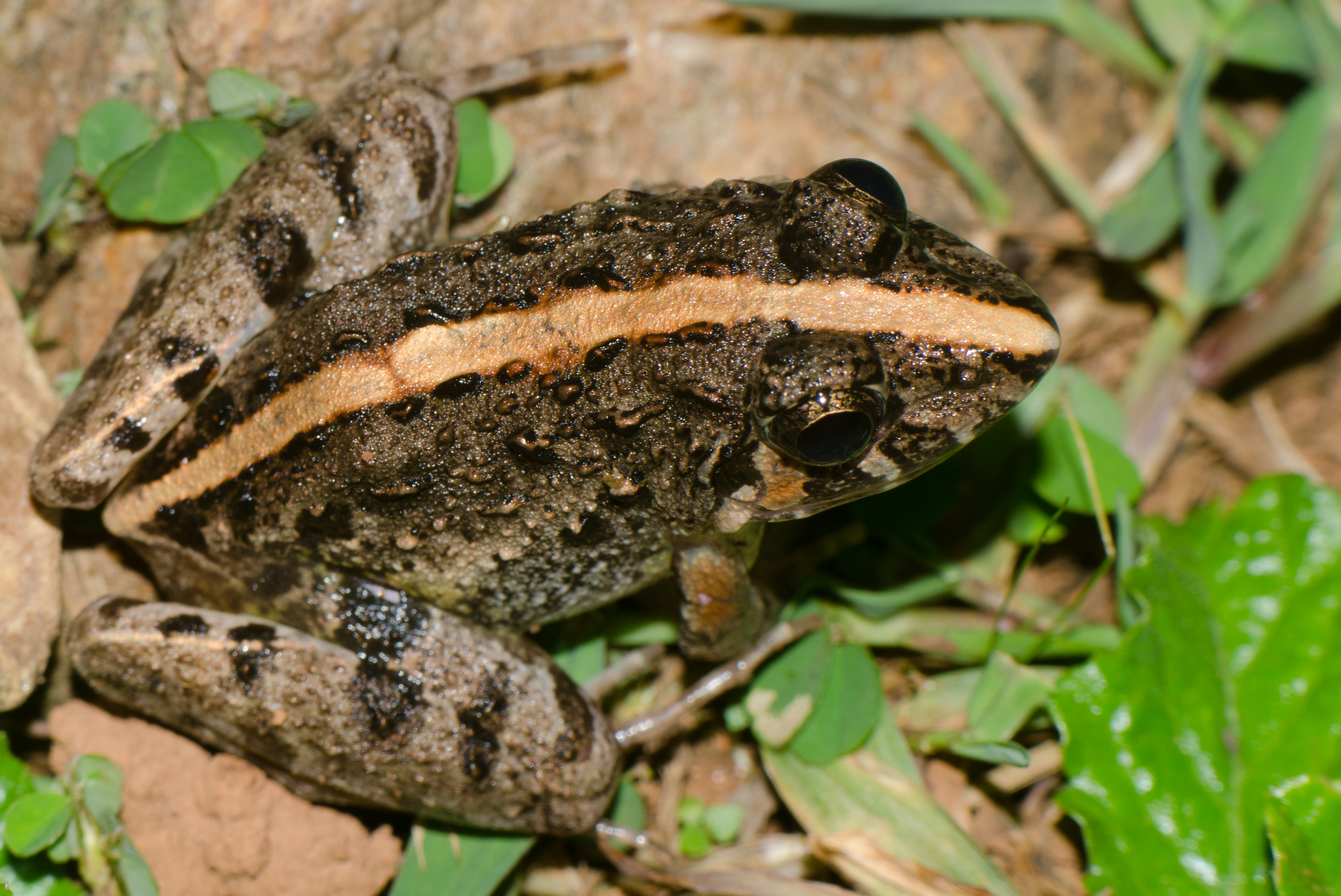 Zakerana kudremukhensis also known as Kudremukh Cricket Frog from Agumbe